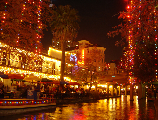 San Antonio Riverwalk